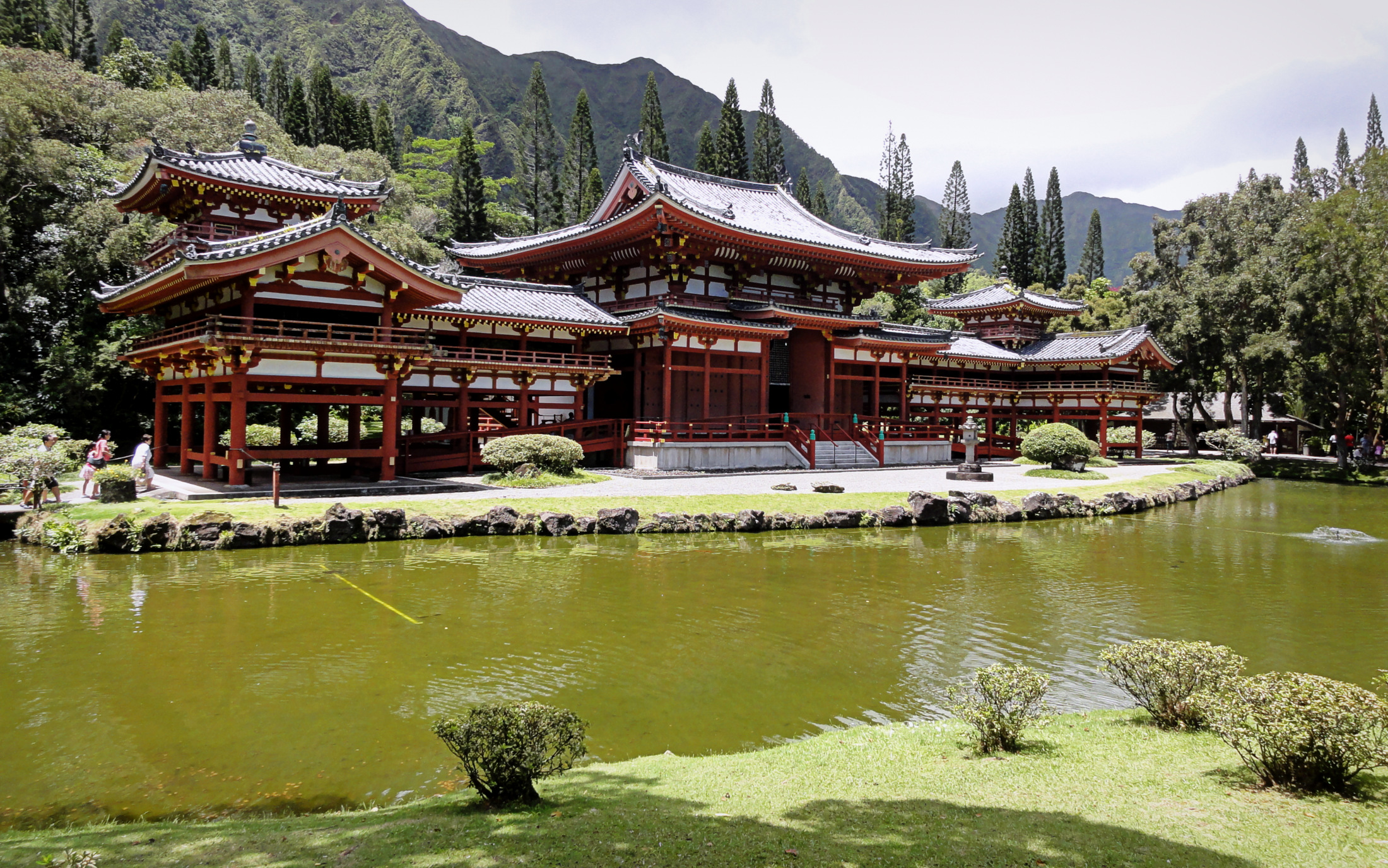 Byodo-In Temple, Oahu - Hawaii